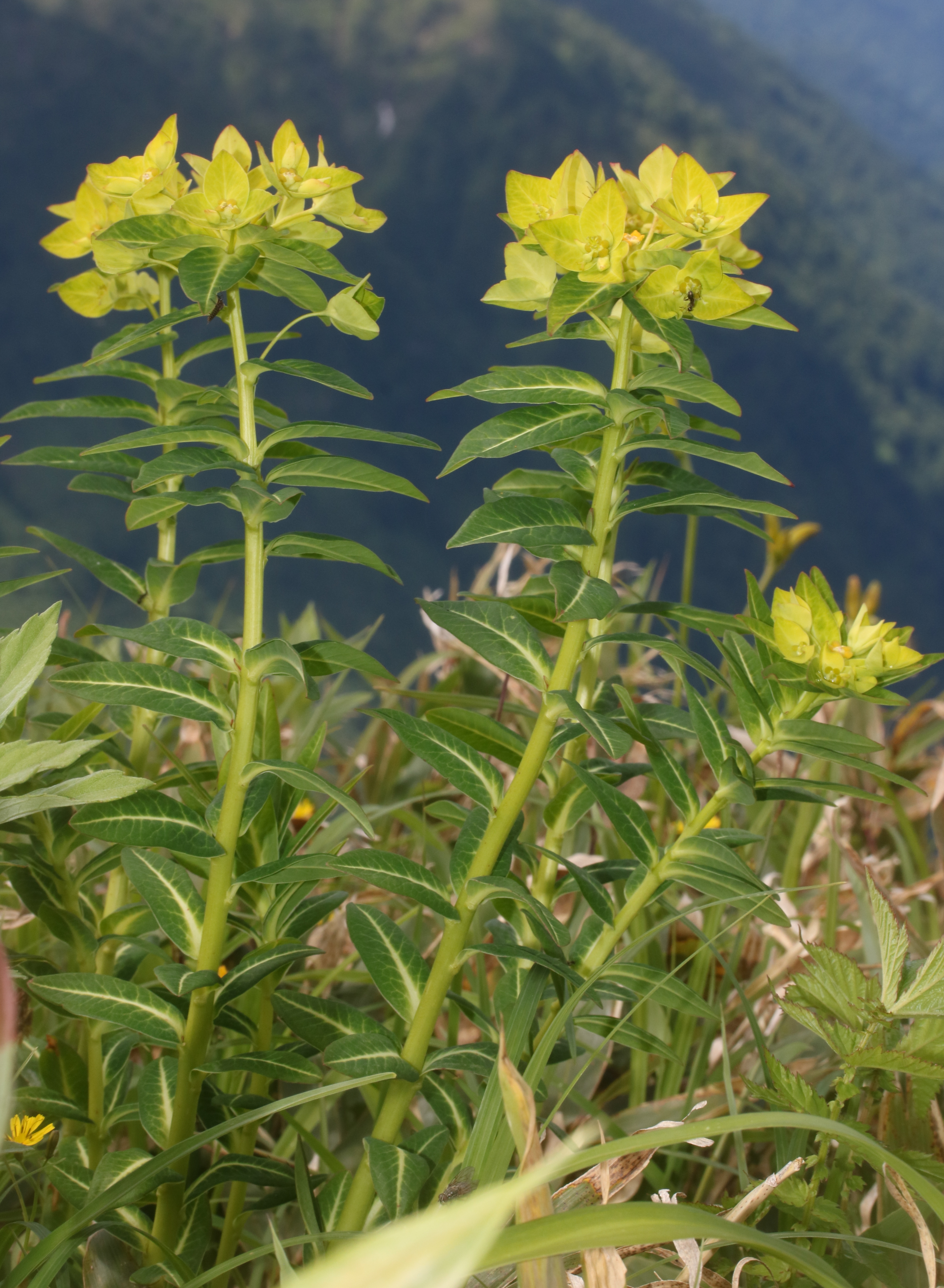 Euphorbia togakusensis in Mount Sannomine, Ryohaku Mountains, Ono, Fukui Prefecture, Japan.